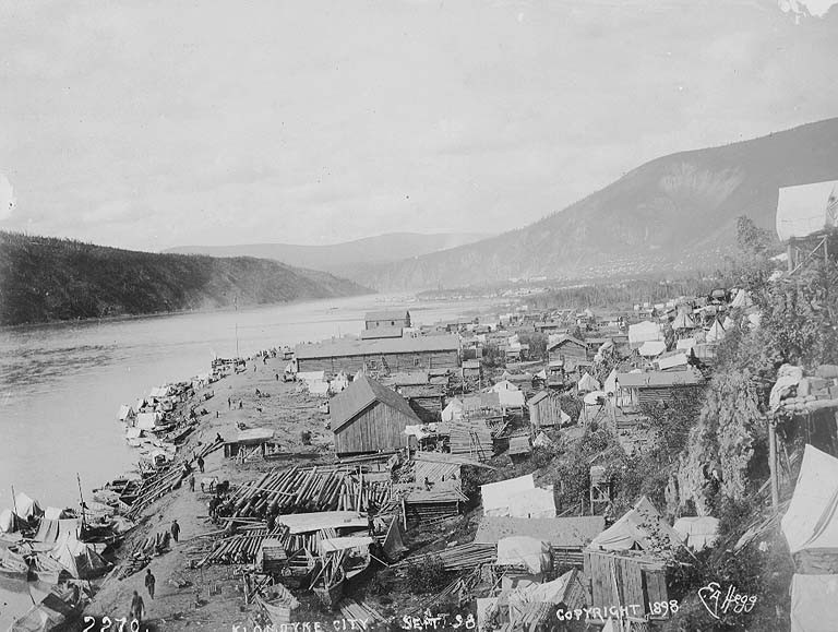 Caption on image: "Klondyke City Sept 98. Copyright 1898" Klondike Gold Rush. Subjects (LCTGM): Rivers--Yukon; Cities & towns--Yukon Subjects (LCSH): Klondike (Yukon); Yukon River (Yukon and Alaska)